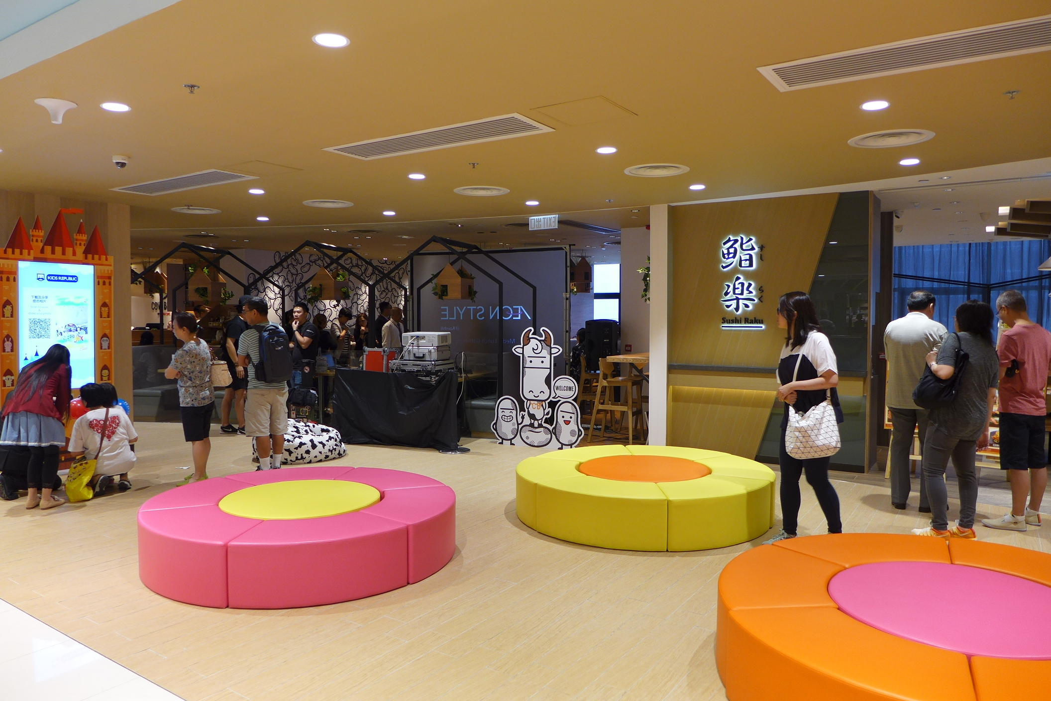 AEON STYLE Kornhill Level 3 restaurants seats area